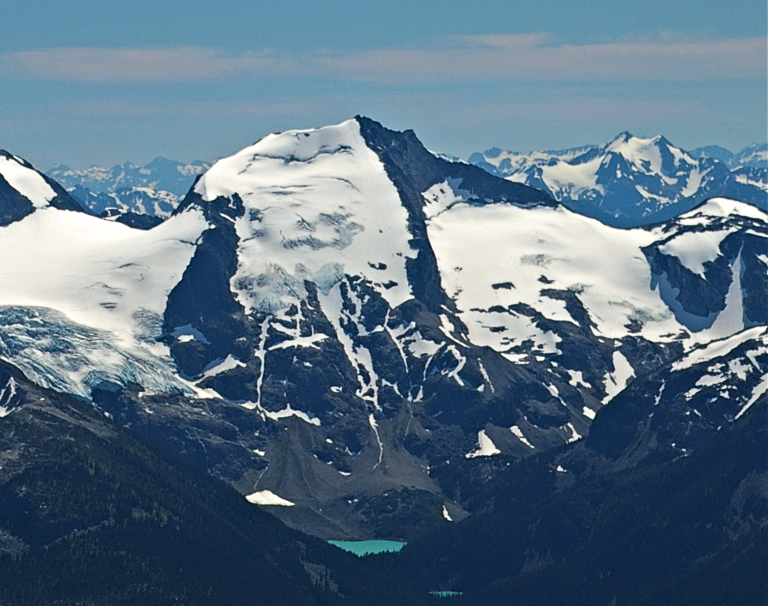 Slalok Mountain and Stonecrop Glacier seen from Mt. Marriott